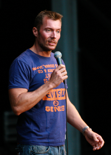 Thomas Hartmann, danish stand-up comedian.